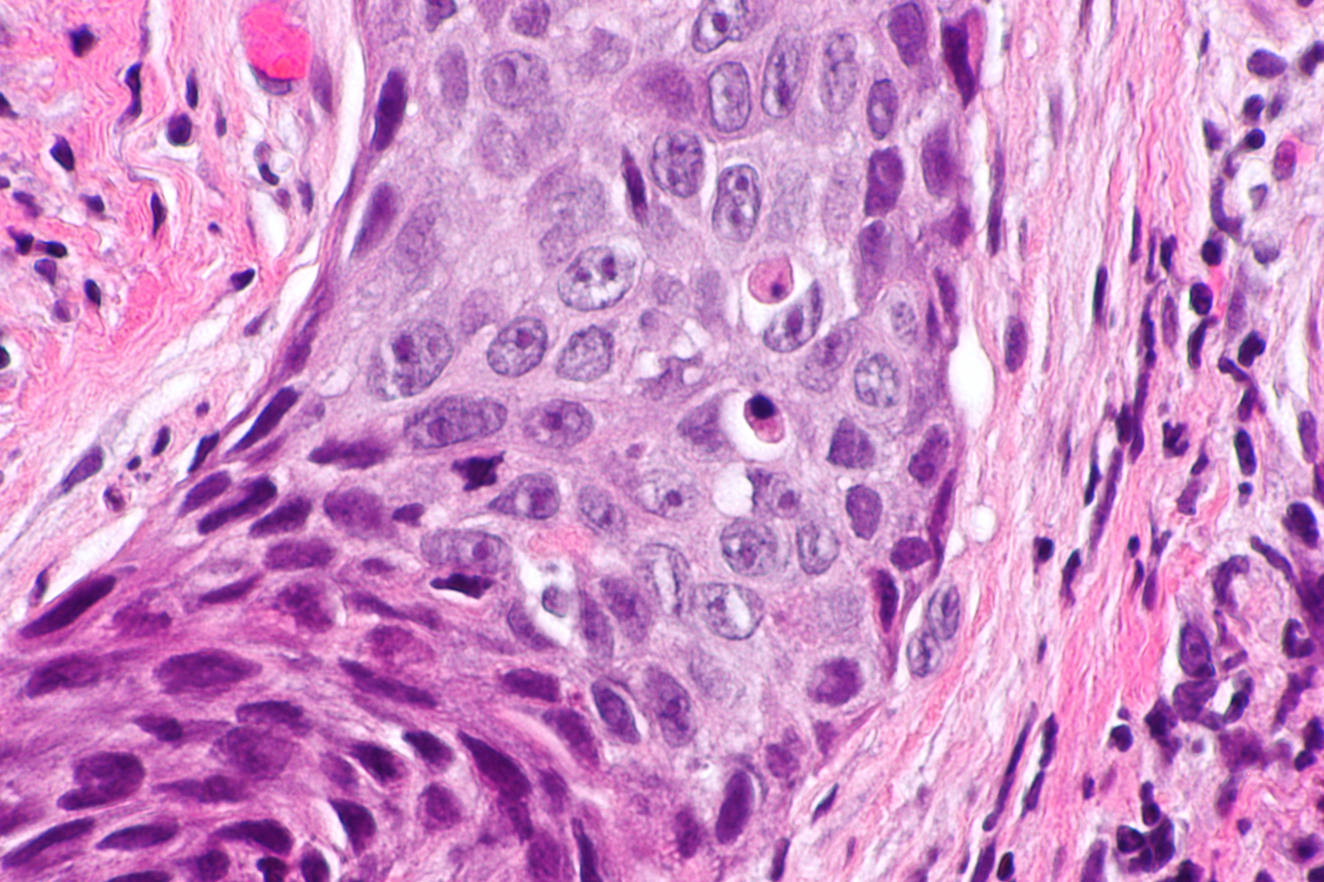 Micrograph showing moderately differentiated invasive squamous cell carcinoma of the larynx with lymphovascular invasion. H&E stain. Related images SCC - intermed. mag. SCC - high mag. SCC - very high mag. SCC - intermed. mag. SCC - high mag. SCC - very high mag.